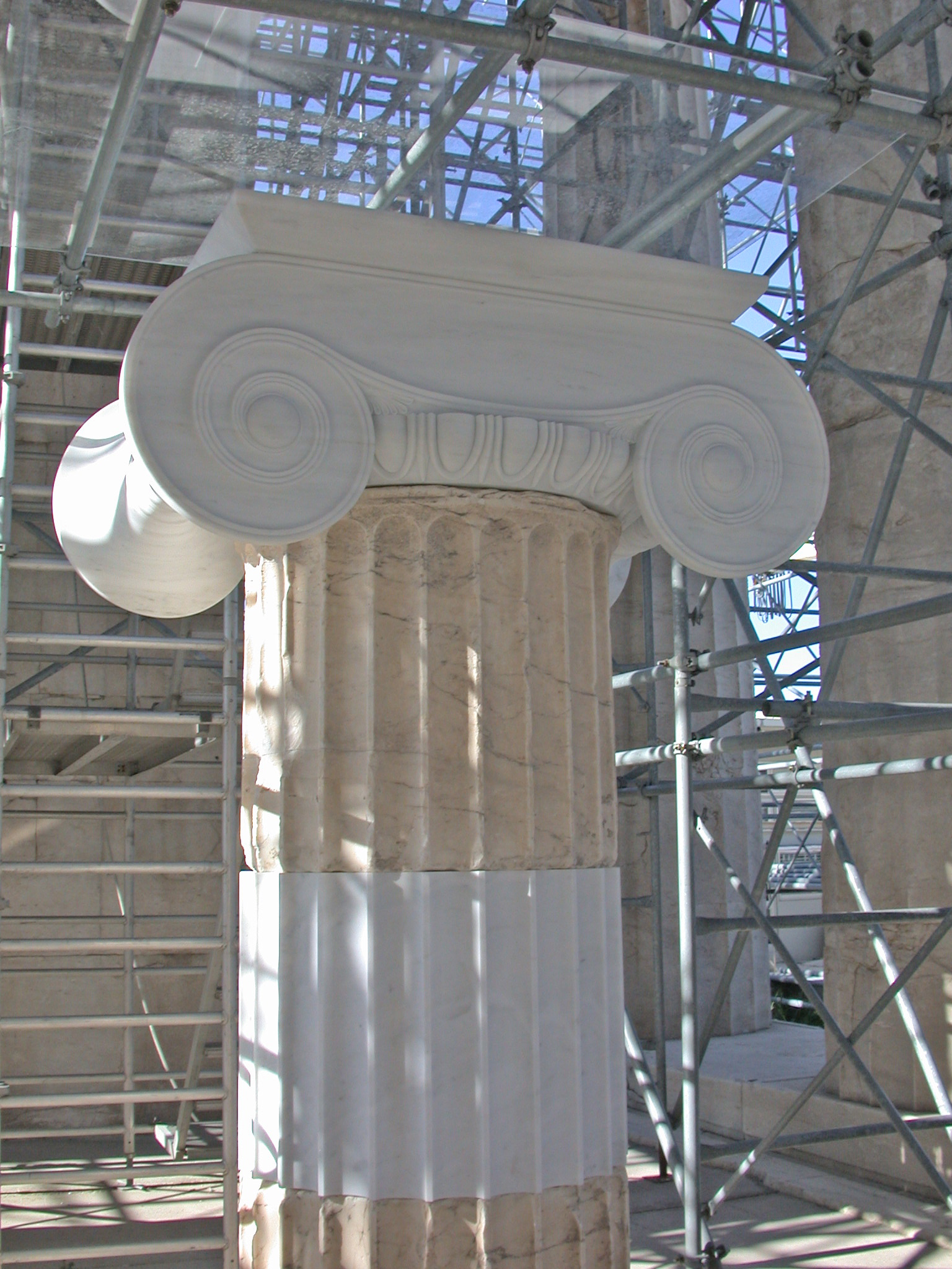 Greece, Athens, Propylea, new ionic capital (restorations)